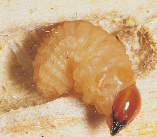 Poplar-and-willow borer, larva in Hungary.